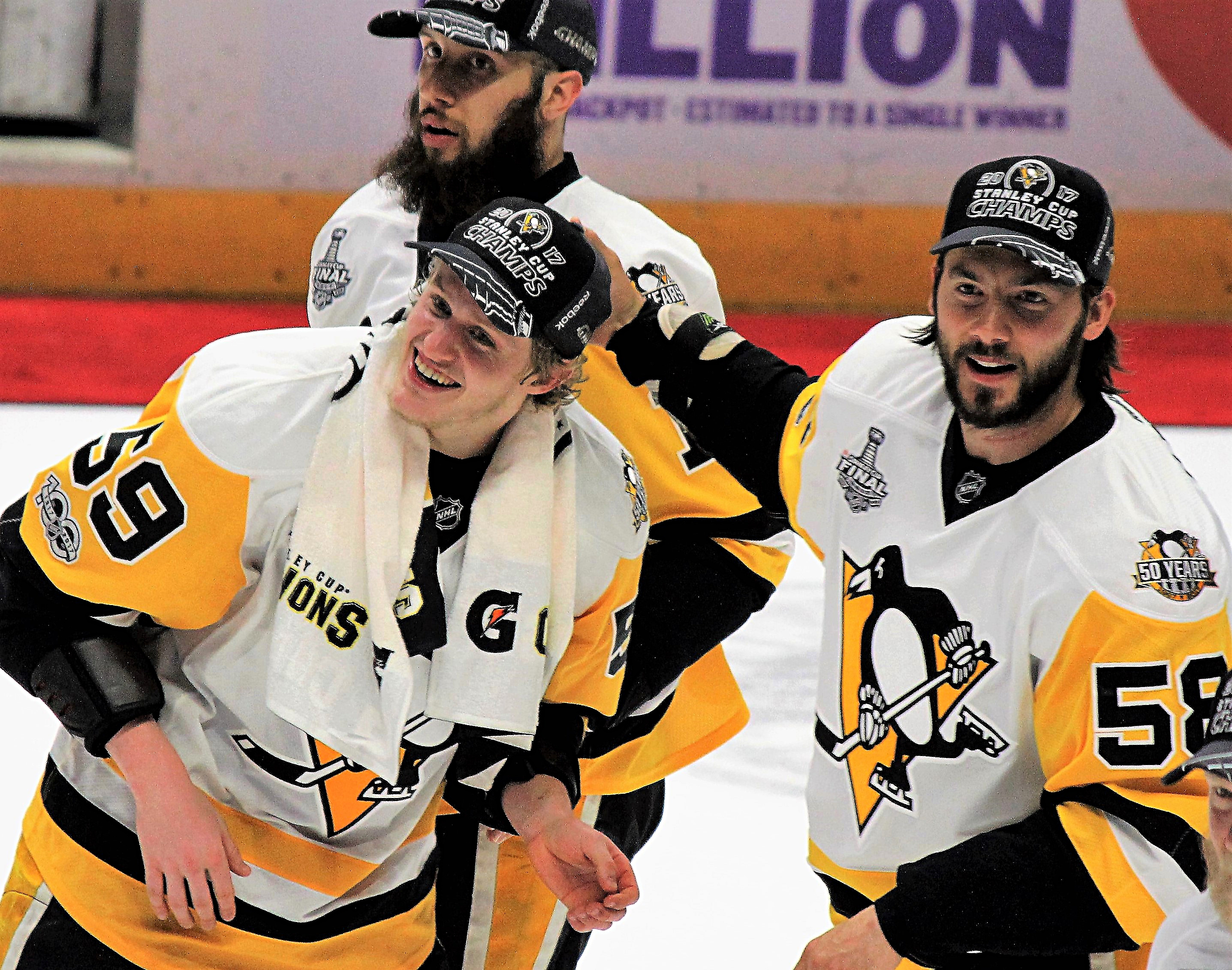 Pittsburgh Penguins forward Jake Guentzel and defenseman Krist Letang celebrate following the Penguins Stanley Cup clinching win in game 6 over the Nashville Predators, June 11, 2017, at Bridgestone Arena in Nashville, TN.